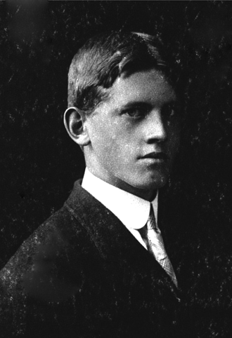 Ornithologist James Paul Chapin (1889-1964)